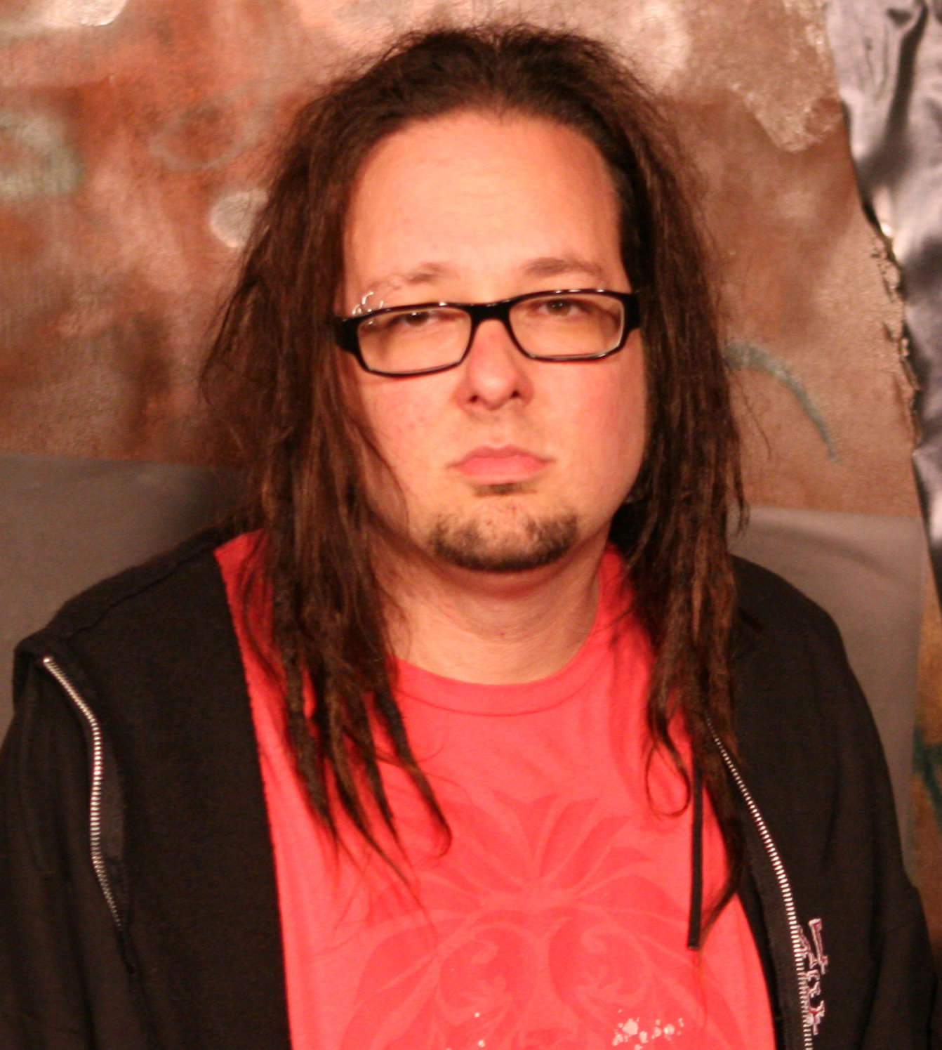 Korn's Jonathan Davis at the Gears of War promotional event hosted at the Hollywood Forever Cemetary